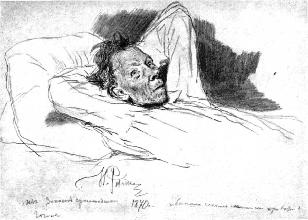 Illustration of the novel "Diary of a Madman" (Записки сумасшедшего, 1835)